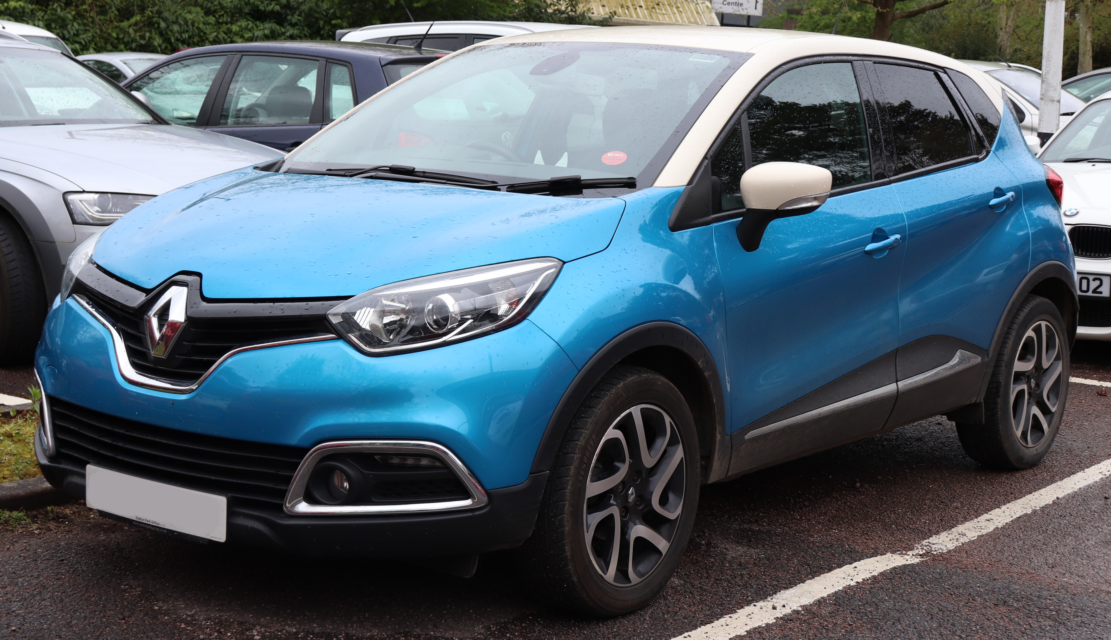 2014 Renault Captur Que S NRG 900cc Front Taken in Leamington Spa